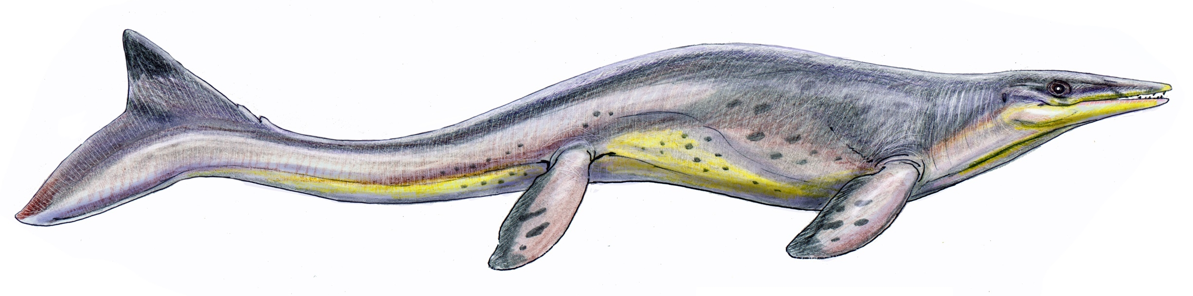 New reconstruction of Tylosaurus proriger, based on recent data about mosasaur's soft tissue